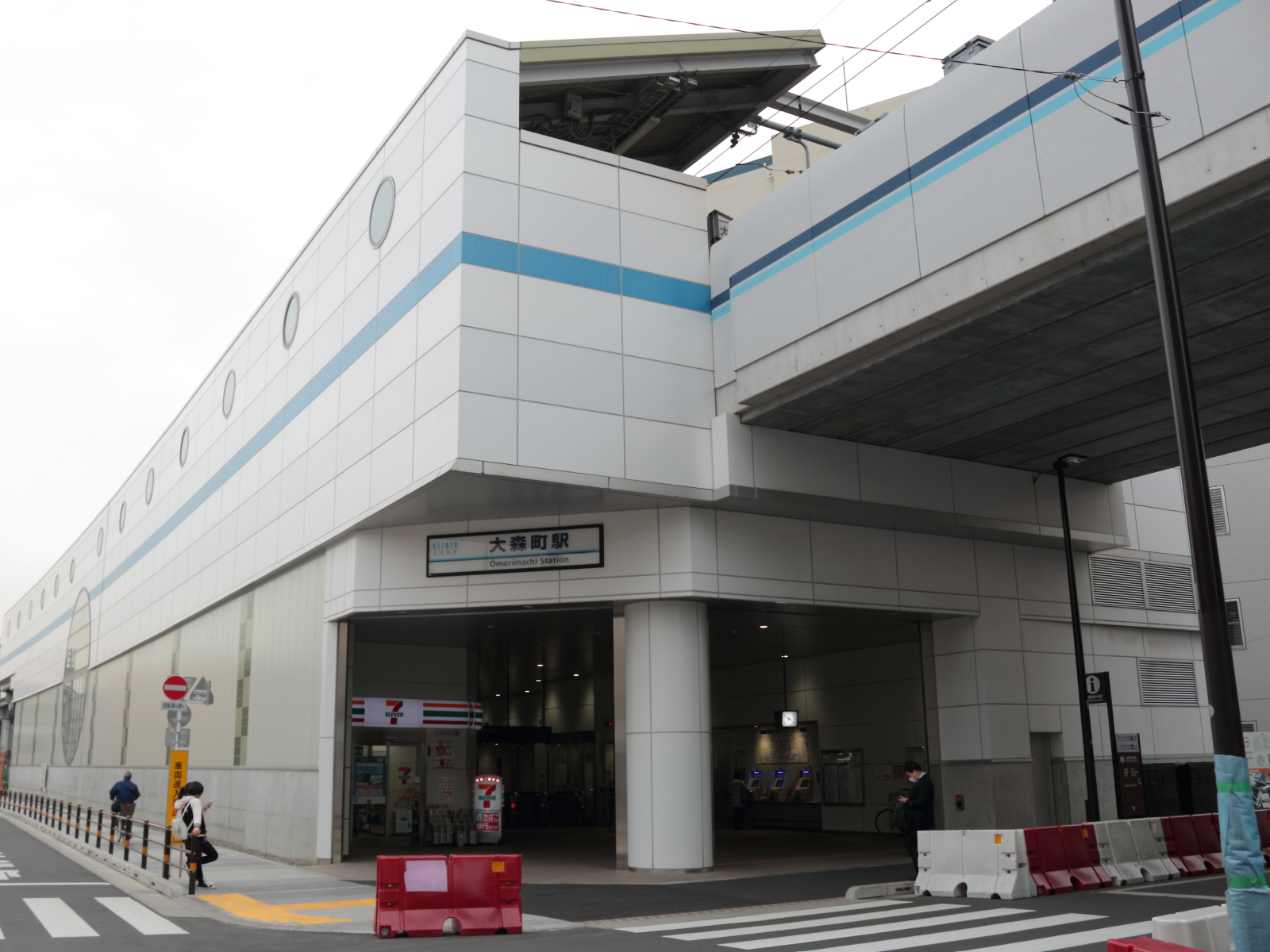 Station Building from Ōmorimachi Station.